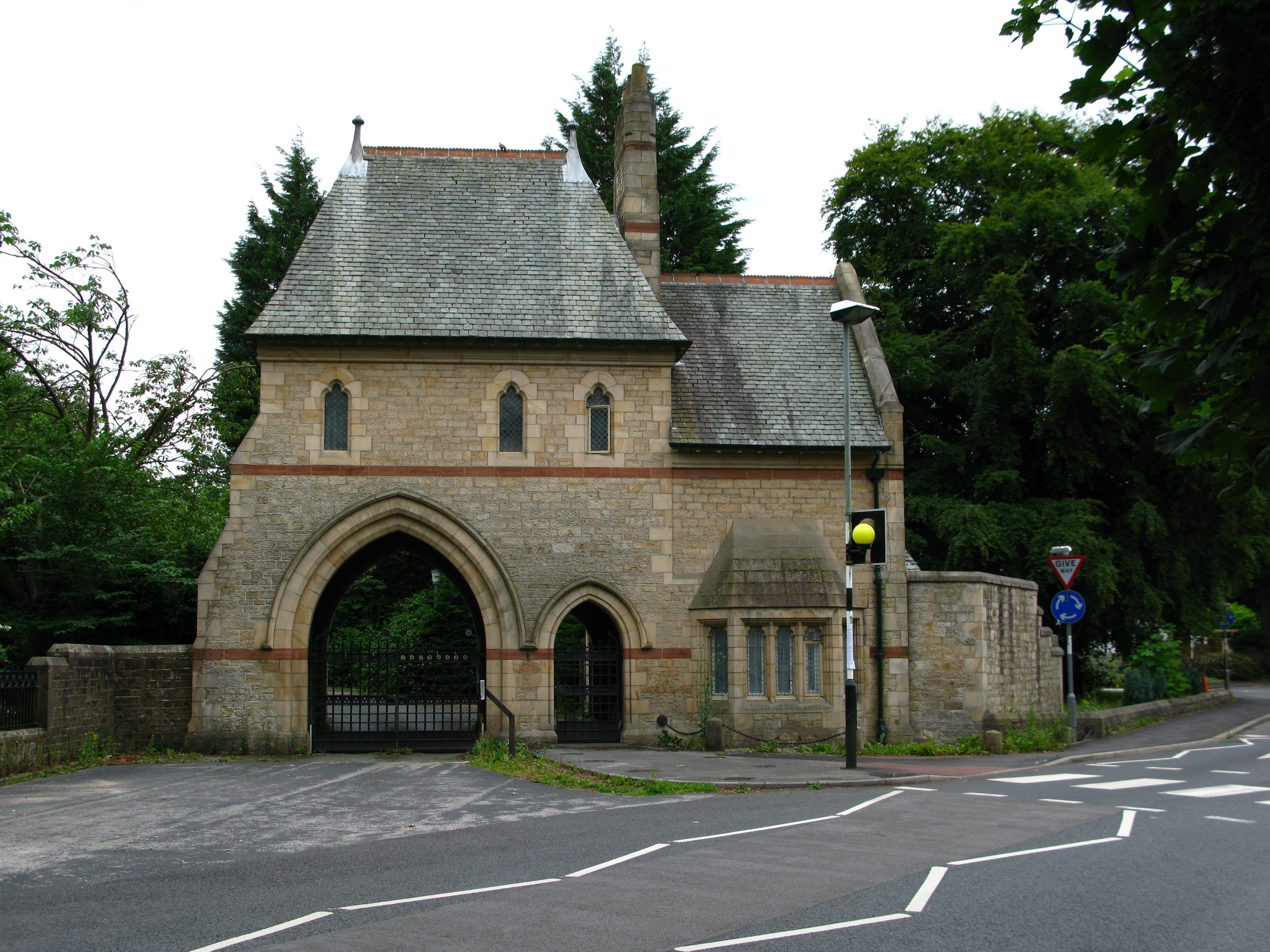 The gatehouse to the former Royal Albert Hospital seen from Ashton Road